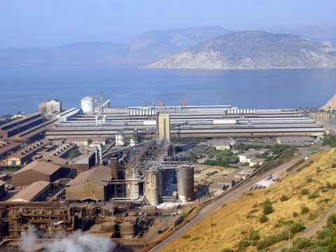 Aluminium de Grece, Greek aluminum company